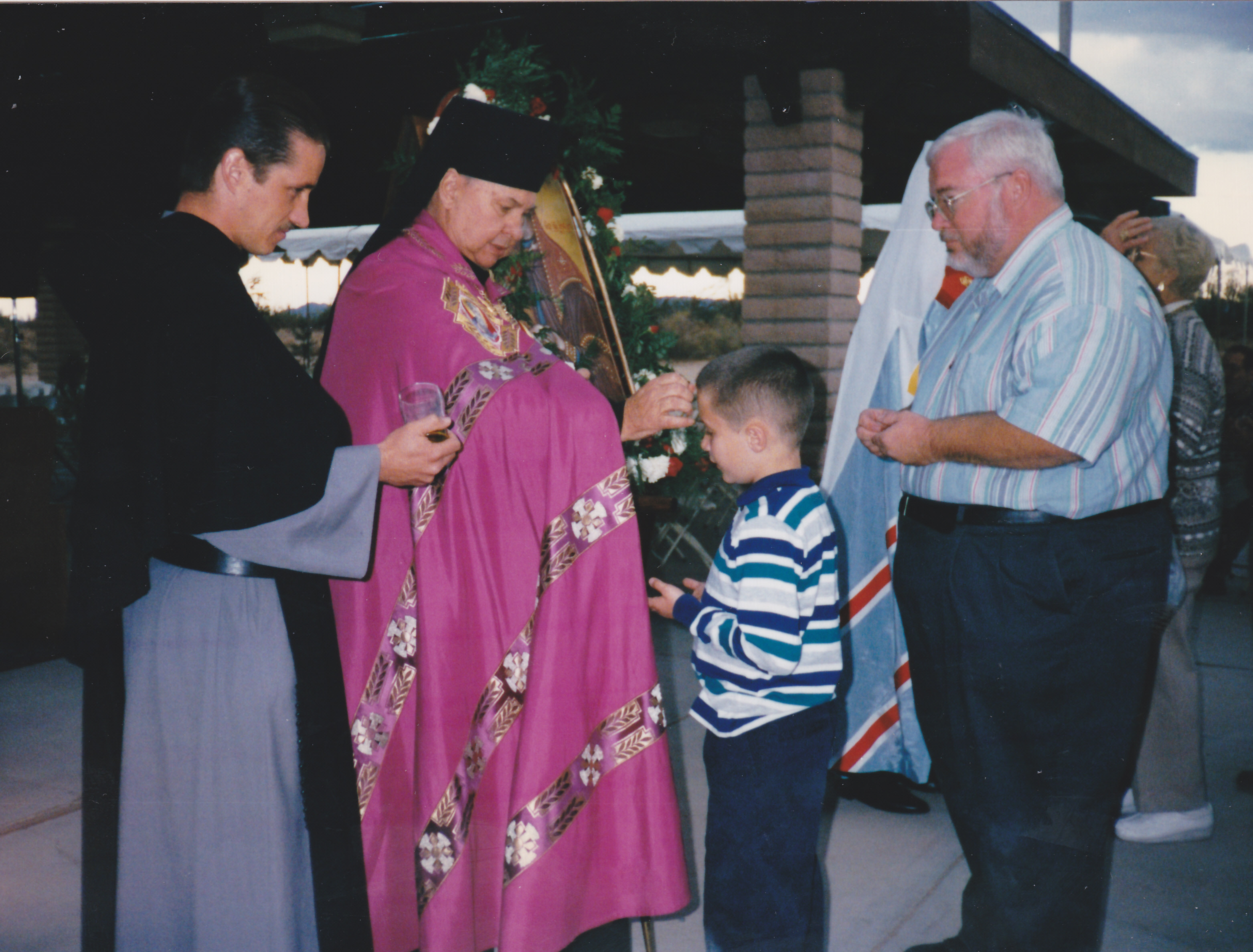 Bishop George Kuzma of the Byzantine Catholic eparchy of Van Nuys (now Phoenix) gives a blessing at the end of the Divine Liturgy at a pilgrimage in California in 1996.